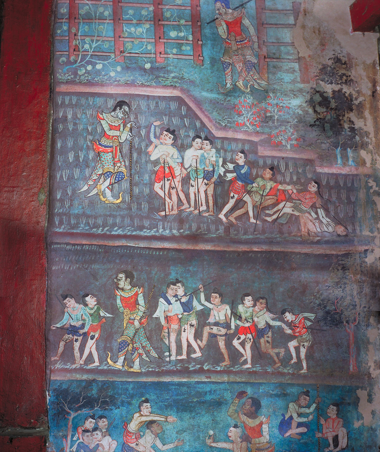 Mural in Viharn Lai Kham, Wat Phra Singh, Chiang Mai, northern Thailand